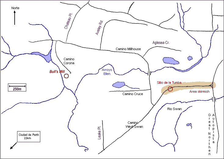 Spanish version of Image:Yagan-Belhus.png